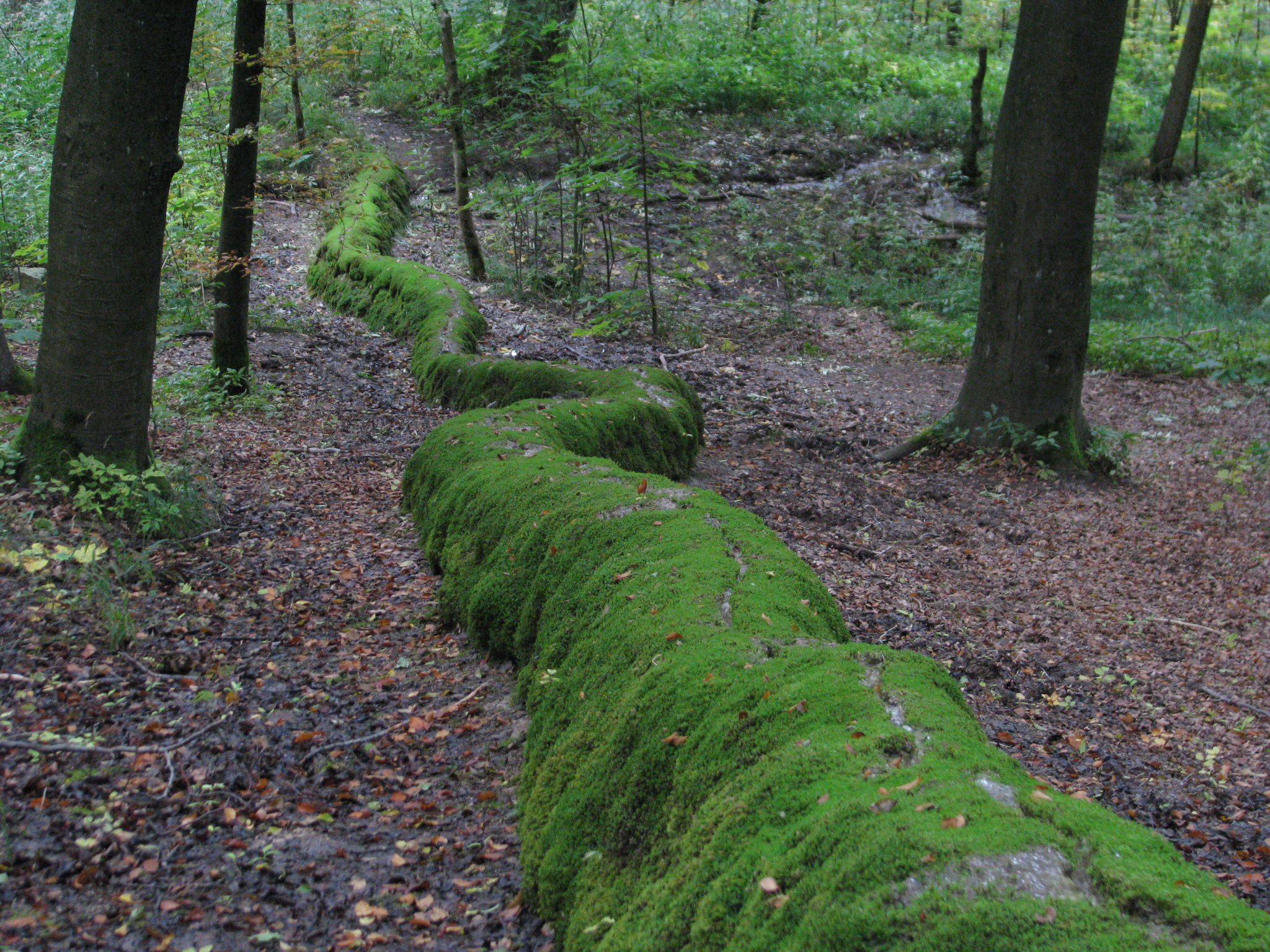 Steinerne Rinne bei Erasbach, Berching, district Neumarkt in der Oberpfalz, Bavaria, Germany